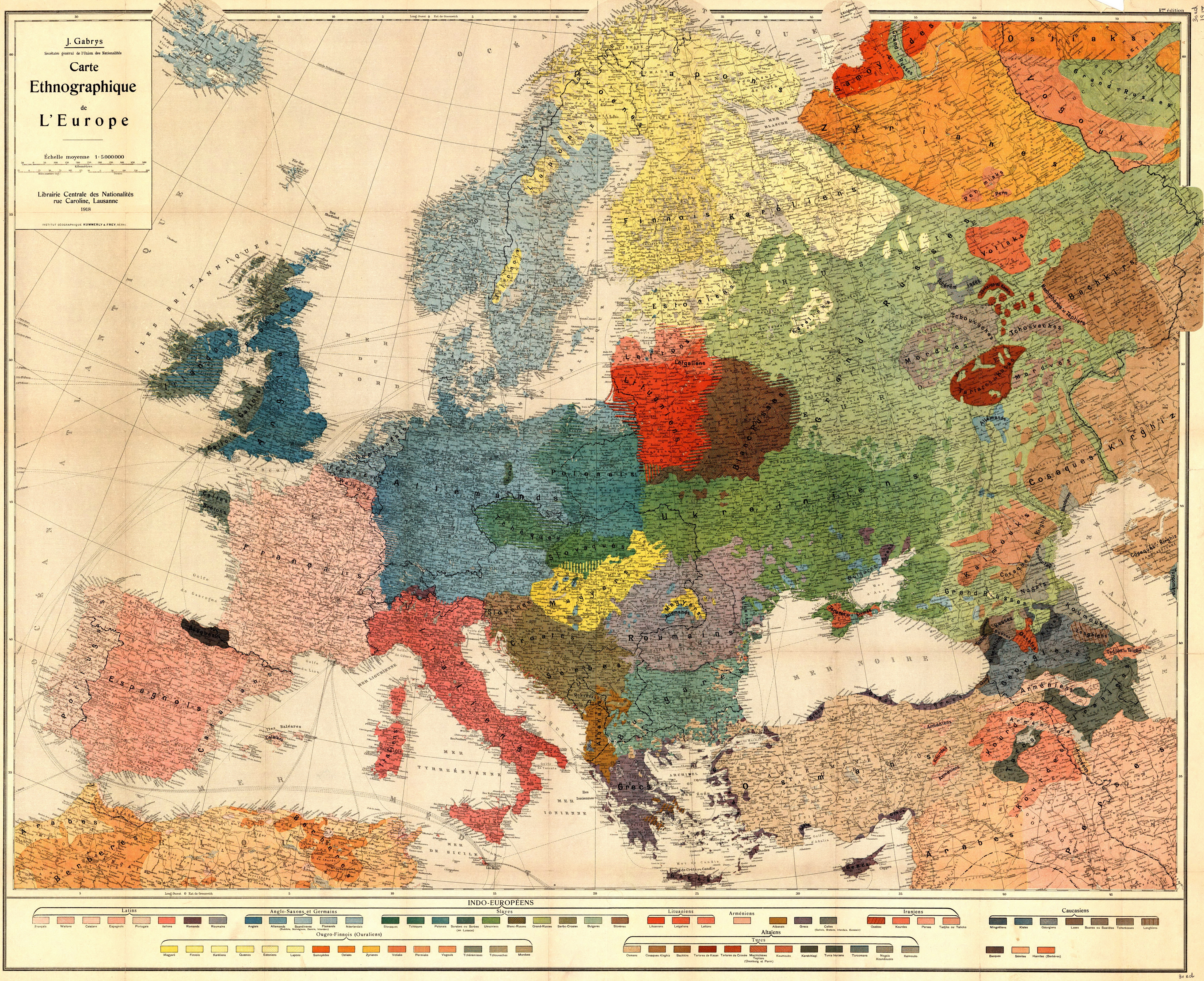 Swiss Ethnographic map of Europe published in 1918. Original title: Carte ethnographique de l'Europe. For the detailed bibliographic information see this page (Centre Excursionista de Catalunya)